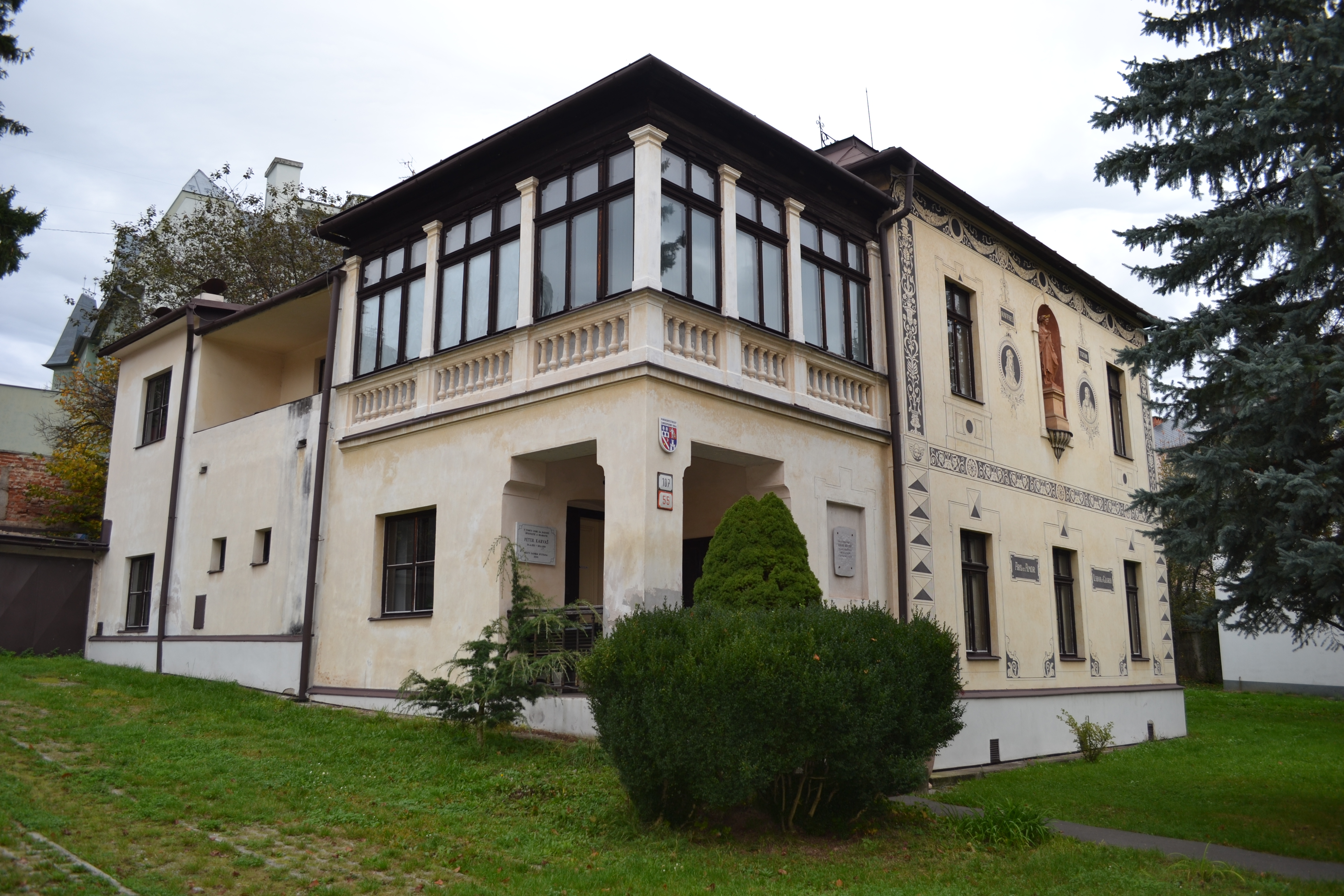 Villa Memorial, Horná street 55, Banská BystricaSlovenčina: Pamätná vila, Horná ul. 55, Banská Bystrica